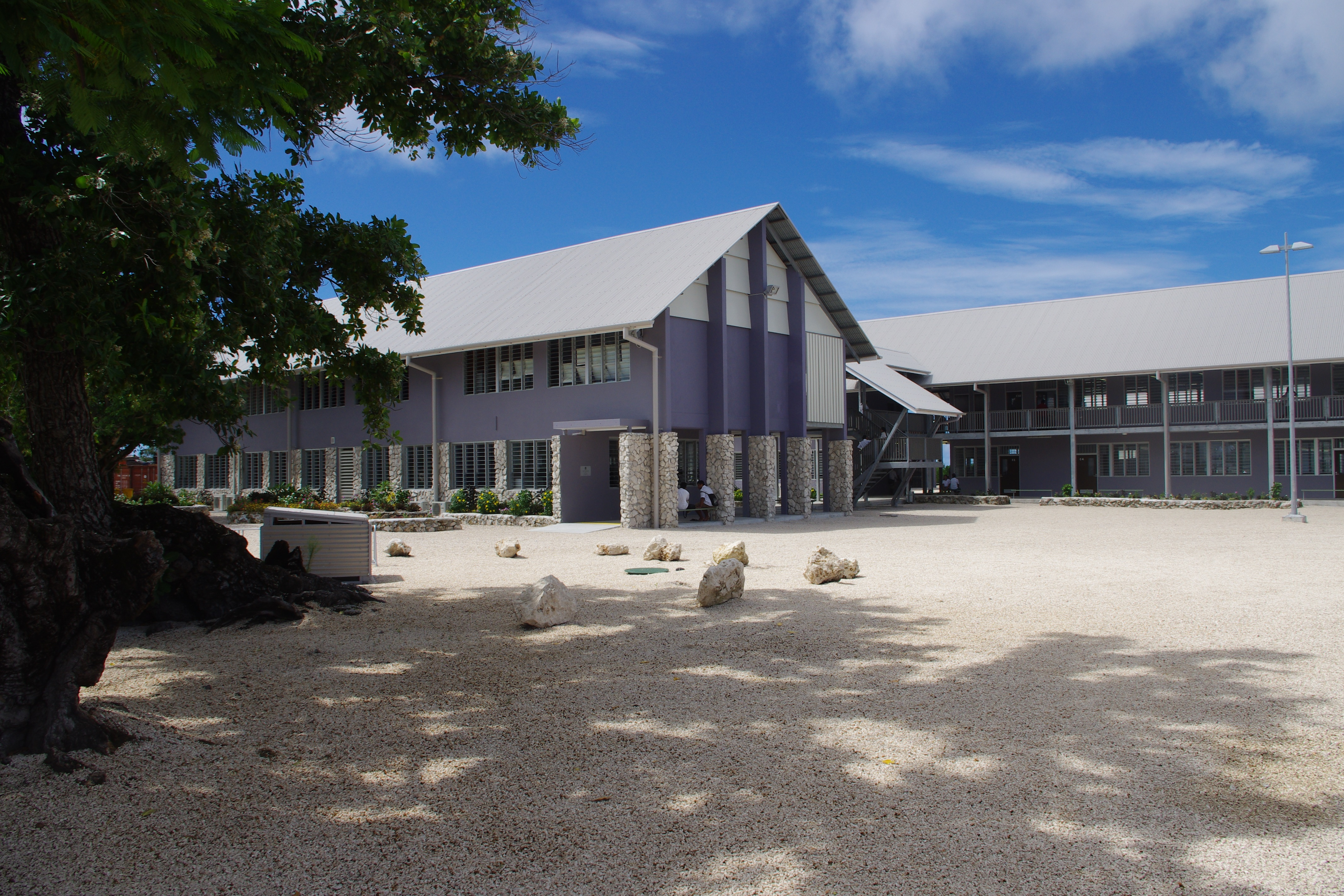 Nauru Secondary School after receiving its $11 million Australian-funded refurbishment, April 2010.